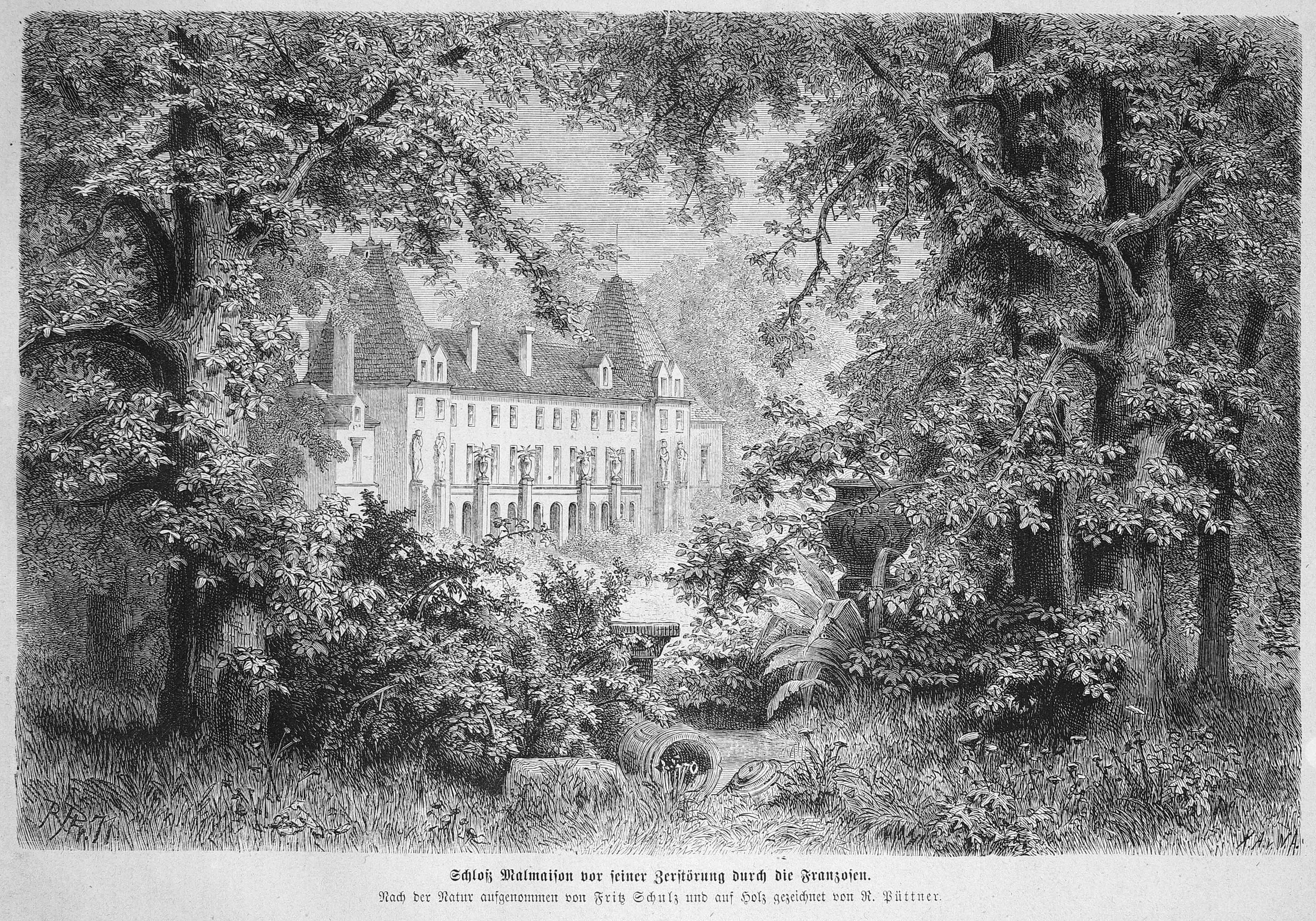 caption: "Schloß Malmaison vor seiner Zerstörung durch die Franzosen. Nach der Natur aufgenommen von Fritz Schulz und auf Holz gezeichnet von R. Püttner."